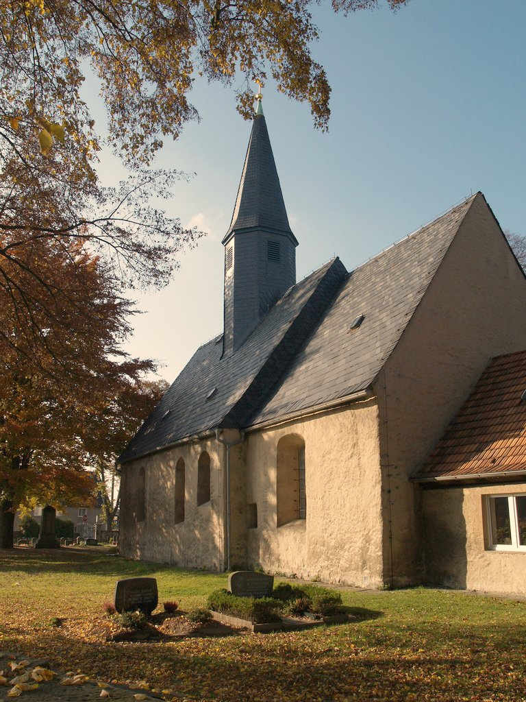 Small village church in